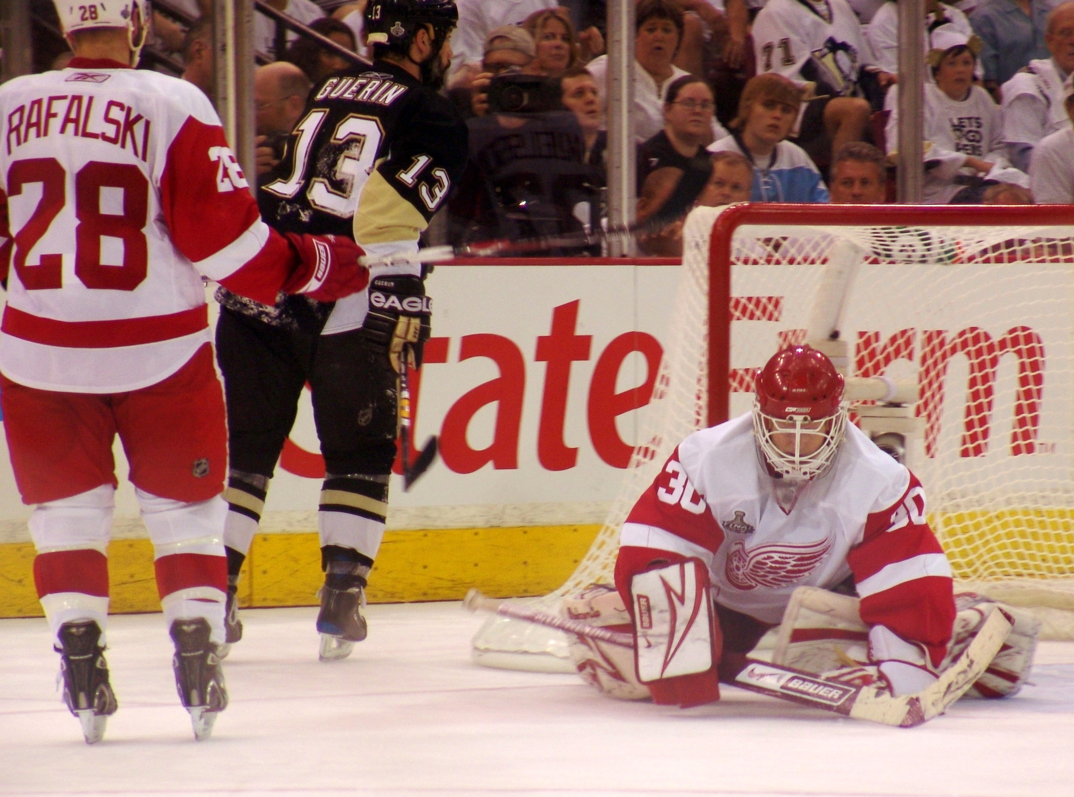 Detroit Red Wings goaltender Chris Osgood makes a save on Pittsburgh Penguins forward Bill Guerin during the second period of the 2009 Stanley Cup Finals Game 6 at Mellon Arena in Pittsburgh, PA. June 9, 2009.